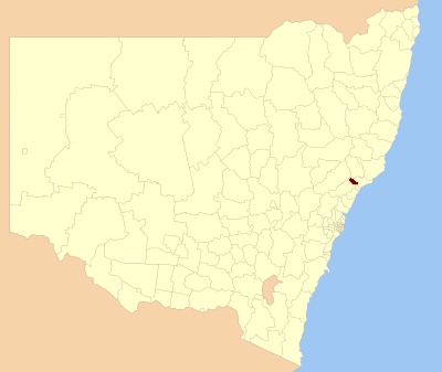 Location of Maitland LGA in New South Wales